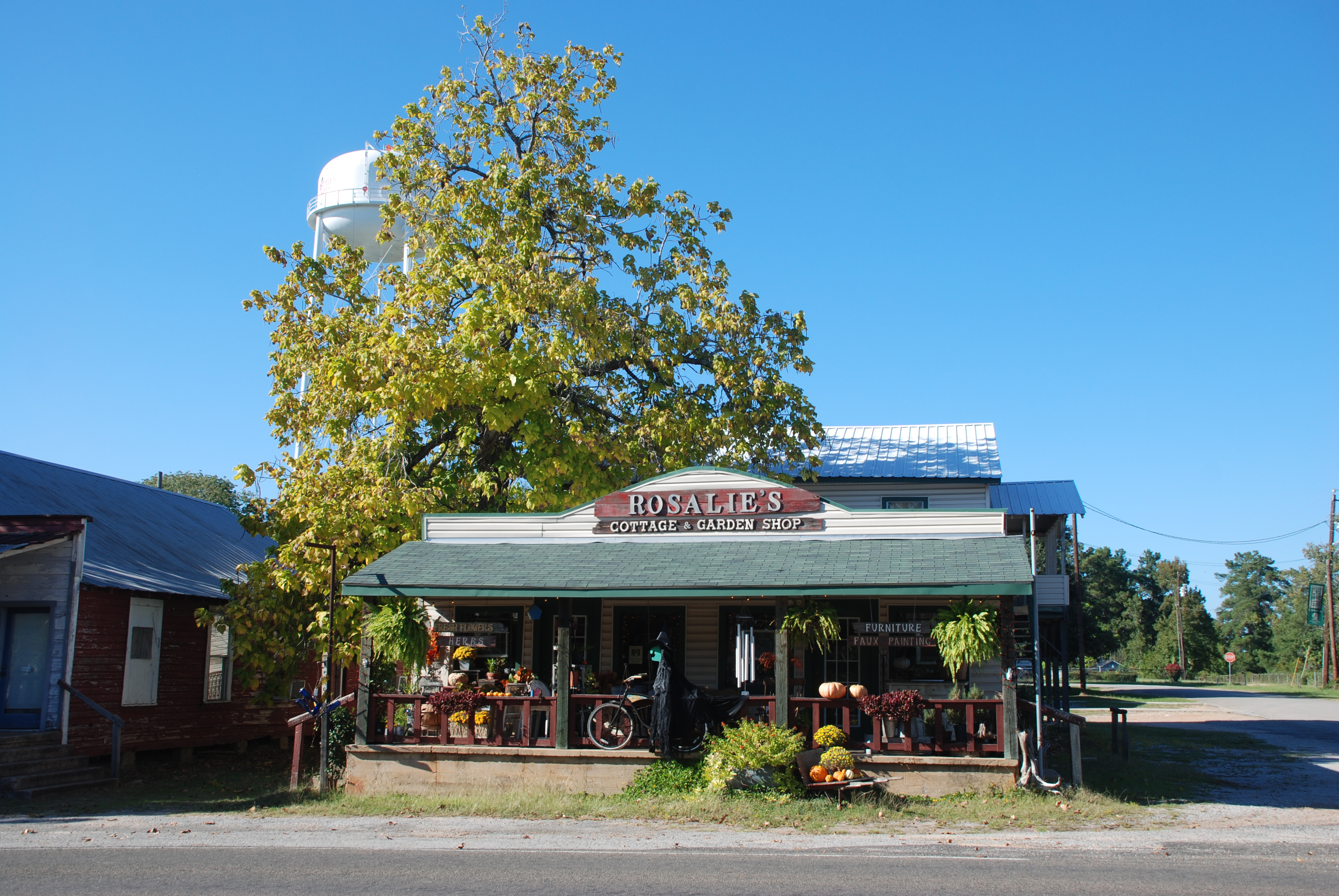 A store at Byrd Avenue (Coldspring, Texas, USA)